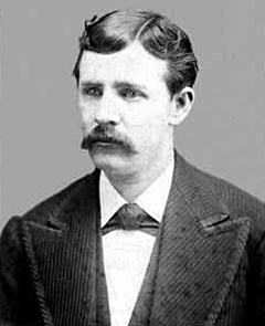 Wyatt Earp at about age 25 at about the time he was in Dodge City, Kansas.